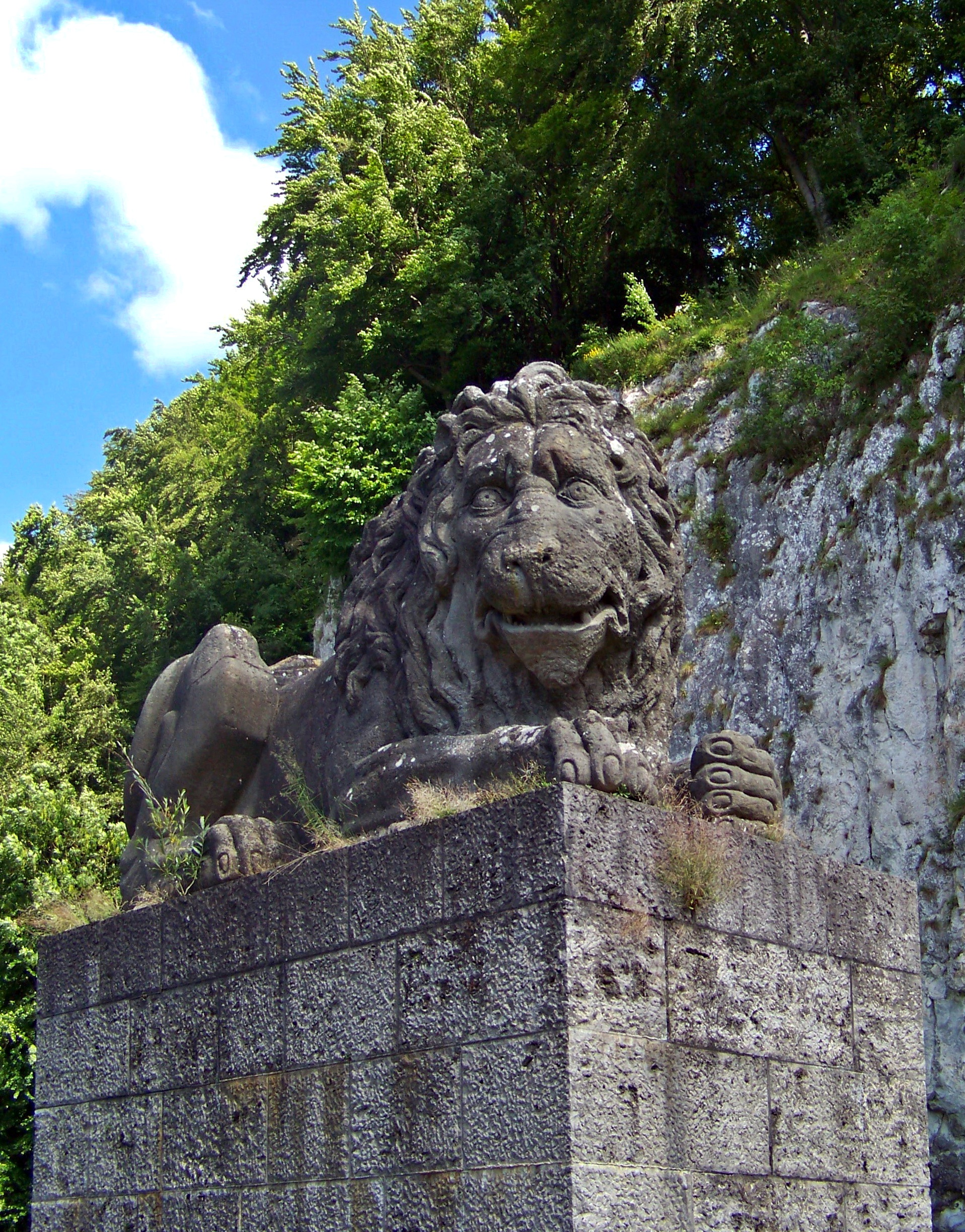 Bad Abbach, Eiermühle, Löwe von Franz Joseph Muxel